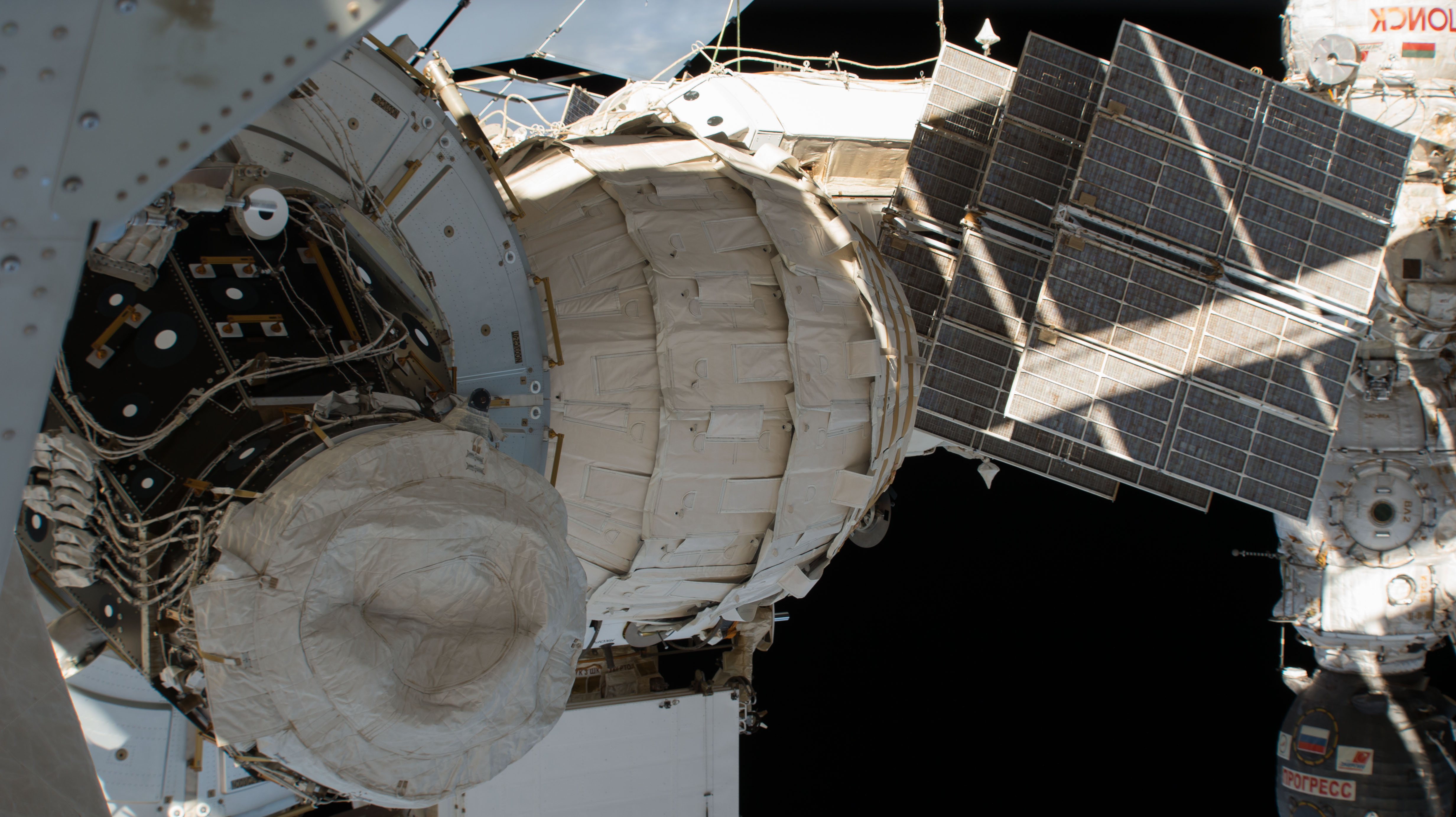 The Bigelow Expandable Activity Module (BEAM) is seen attached to the Tranquility module of the International Space Station. BEAM is an is an experimental expandable habitat. Expandable habitats, occasionally described as inflatable habitats, greatly decrease the amount of transport volume for future space missions. These “expandables” weigh less and take up less room on a rocket while allowing additional space for living and working. They also provide protection from solar and cosmic radiation, space debris, and other contaminants. Crews traveling to the moon, Mars, asteroids, or other destinations could use them as habitable structures.